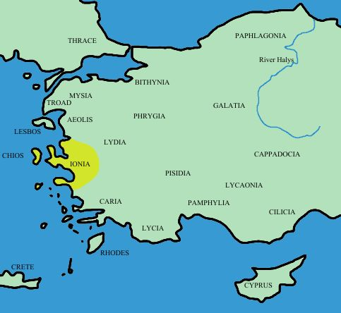 map of Ionia made by me